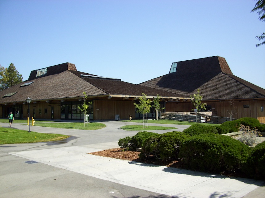 Photograph of the recently-built Campus Center at Foothill College, Los Altos Hills, CA, USA.